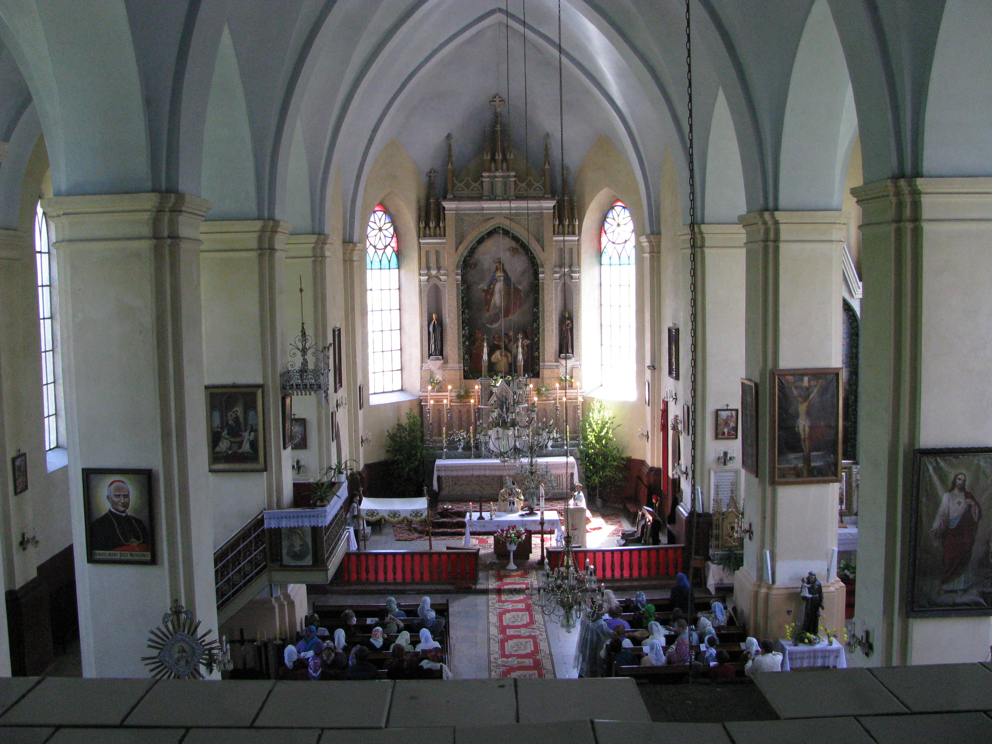 Беларуская (тарашкевіца): Касьцёл. в. Задарожжа This is a photo of Belarusian heritage monument. Reference number: 213Г000385 ( WLM)